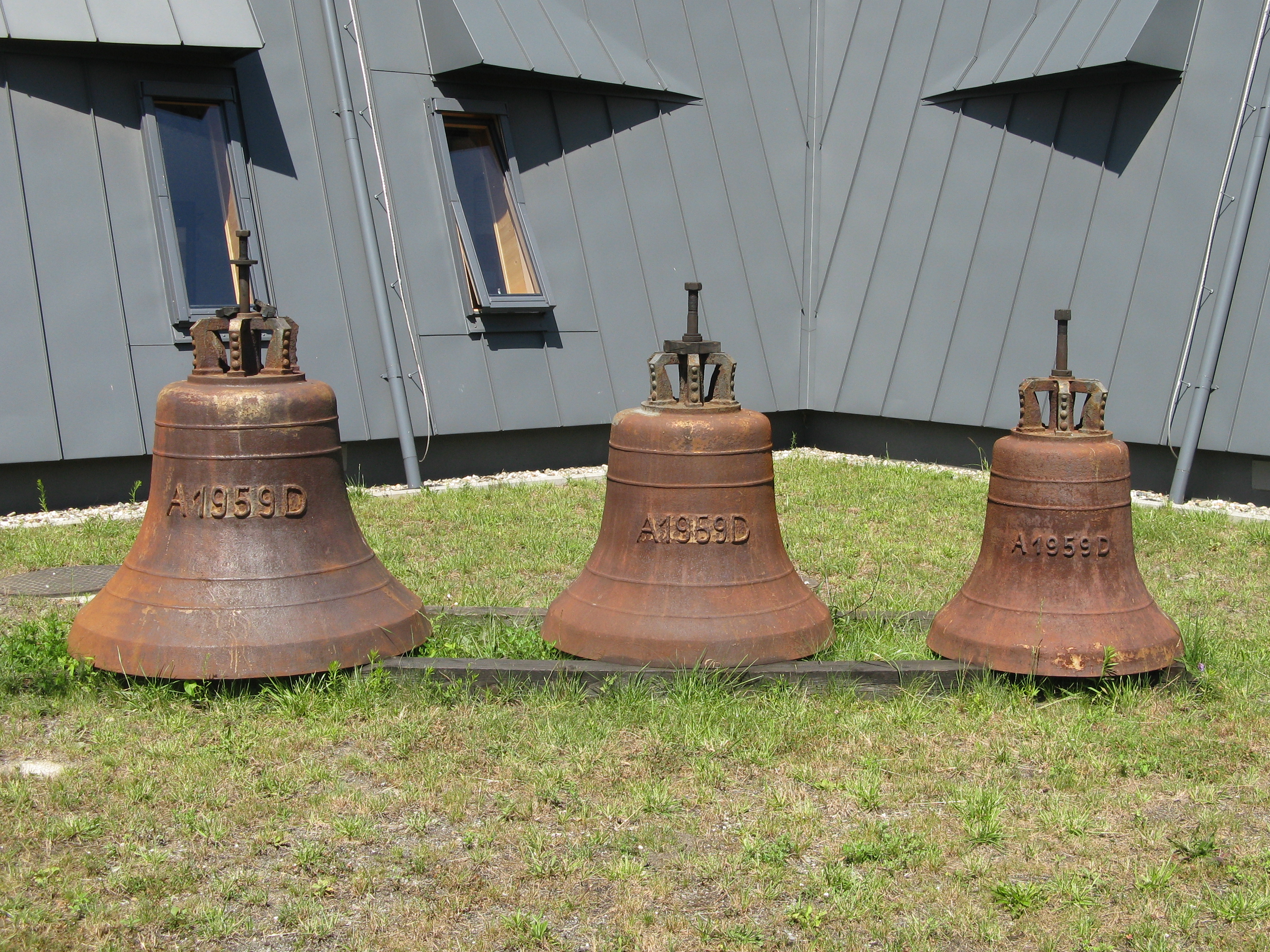 Bytom Joseph church bells